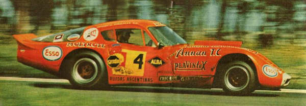 Image:Trueno Naranja.jpg